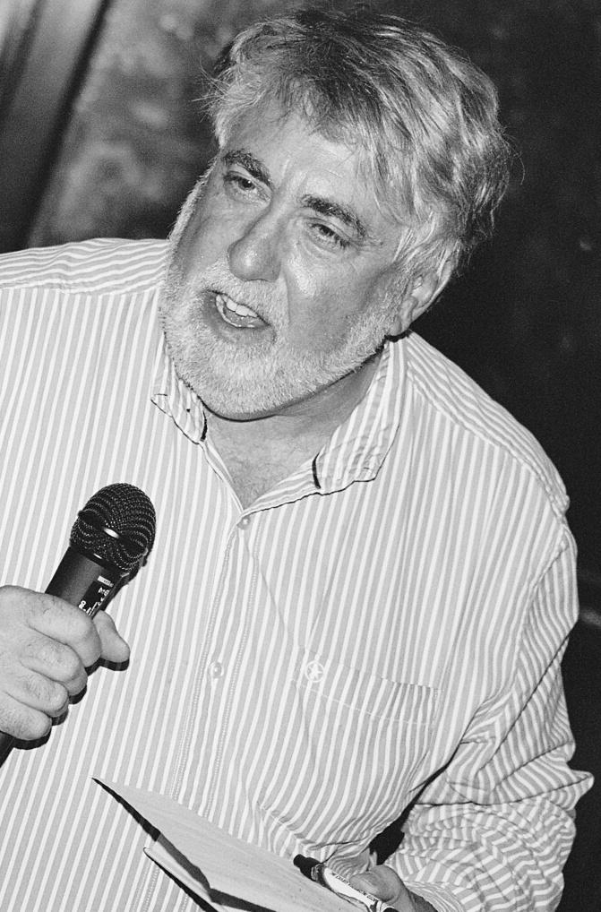 Former SDS and Weather Underground member Mark Rudd, speaking at the West End Bar on March 26, 2009.